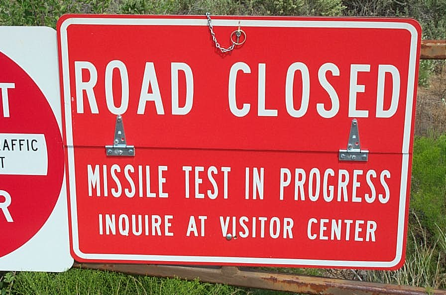 ROAD CLOSED sign on the US Route 70 and 82. the White Sands National Monument is also closed during missile test in the White Sands Missile Range in progress.